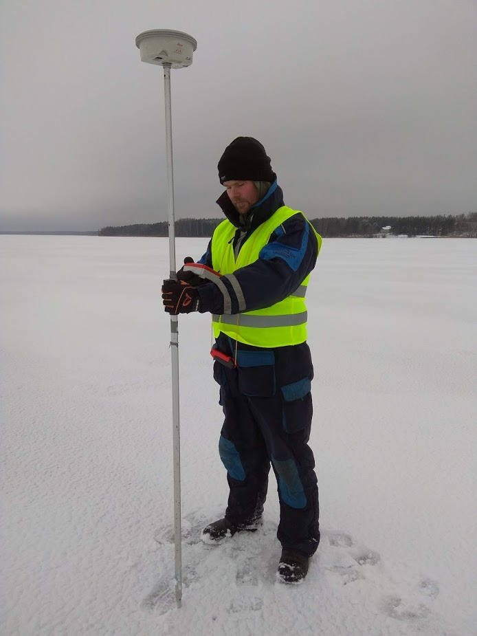 Egert Vandel on fieldworks on Lake Ülemiste